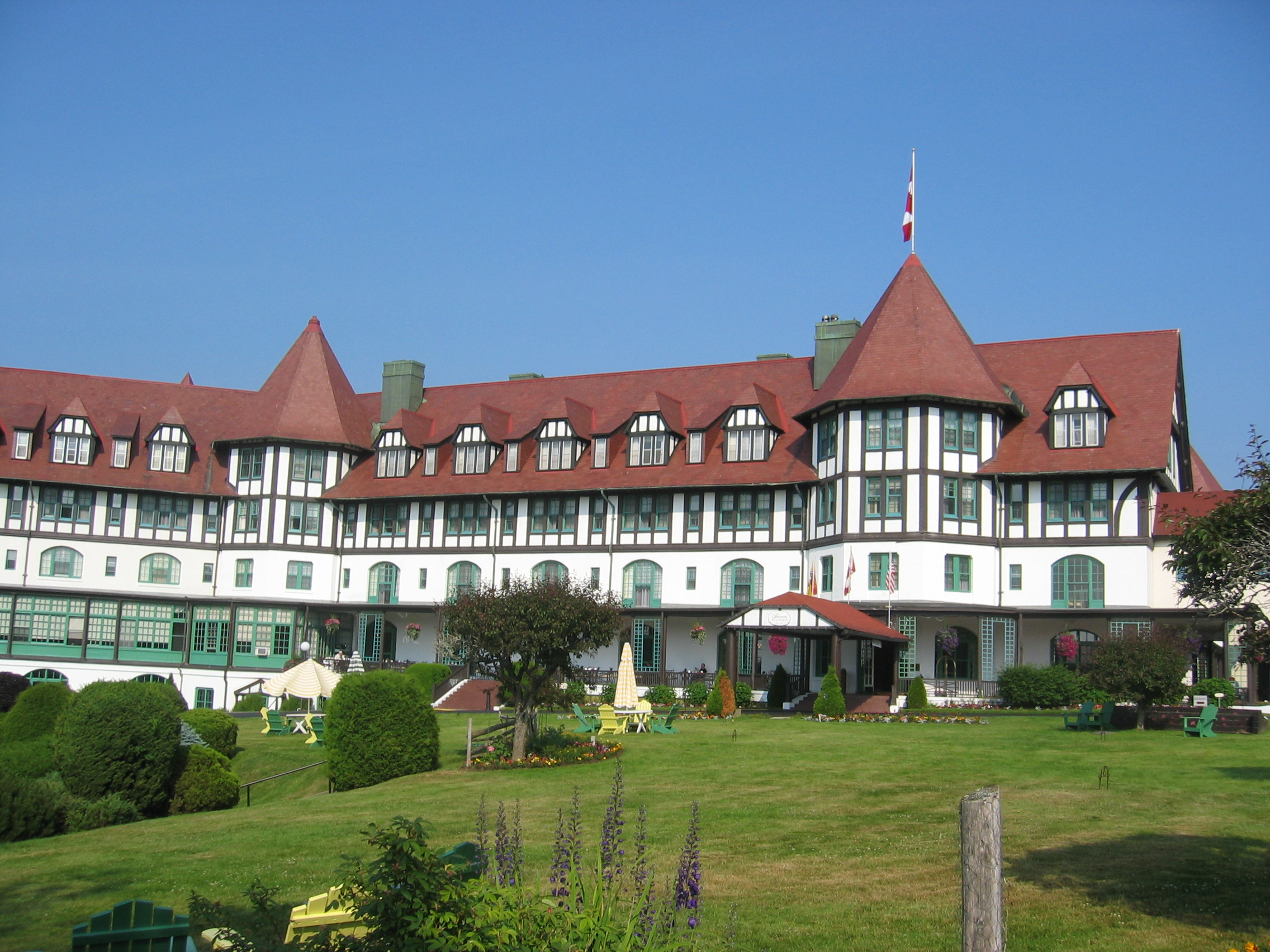 The Algonquin hotel, St. Andrew, New Brunswick, Canada.